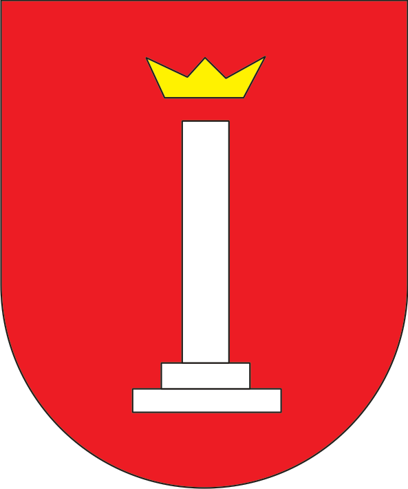 coats of arms of the lordship of Anholt